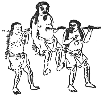 "貫匈国" from the Shan Hai Jing (山海经, Chinese picture)